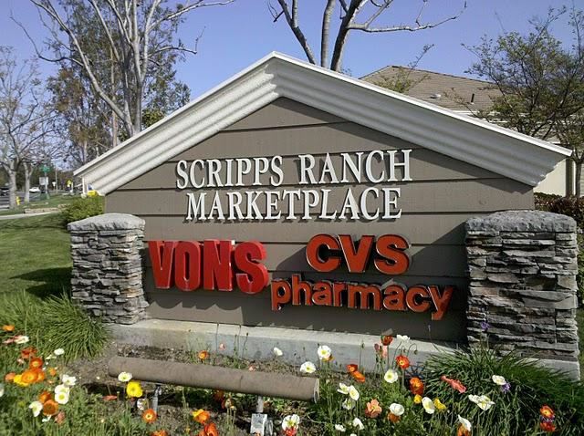 Sign on the corner of Scripps Poway Parkway and Scripps Summit Drive